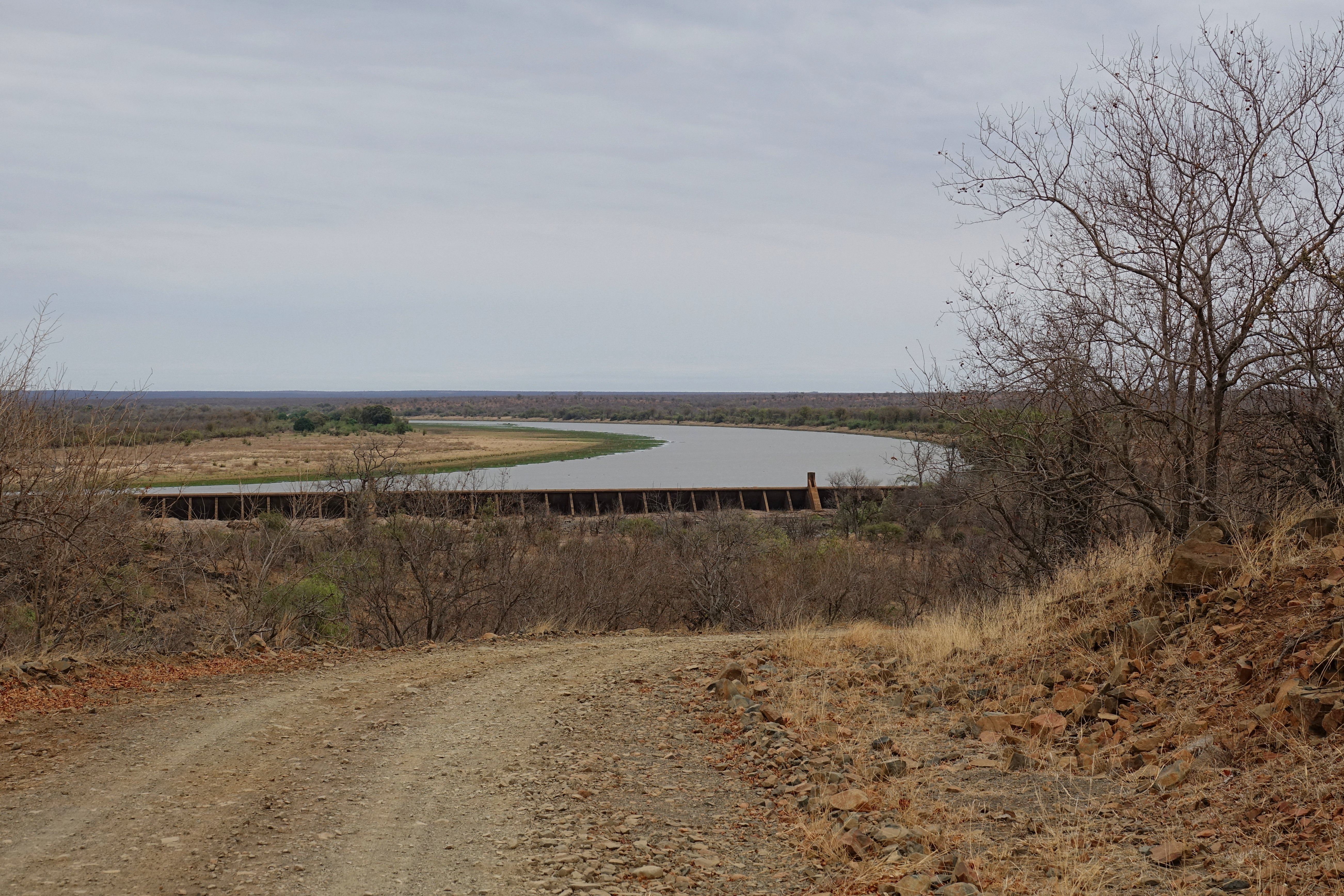 Engelhard Dam was constructed in the 1970s, to regulate water flow in the Letaba River.